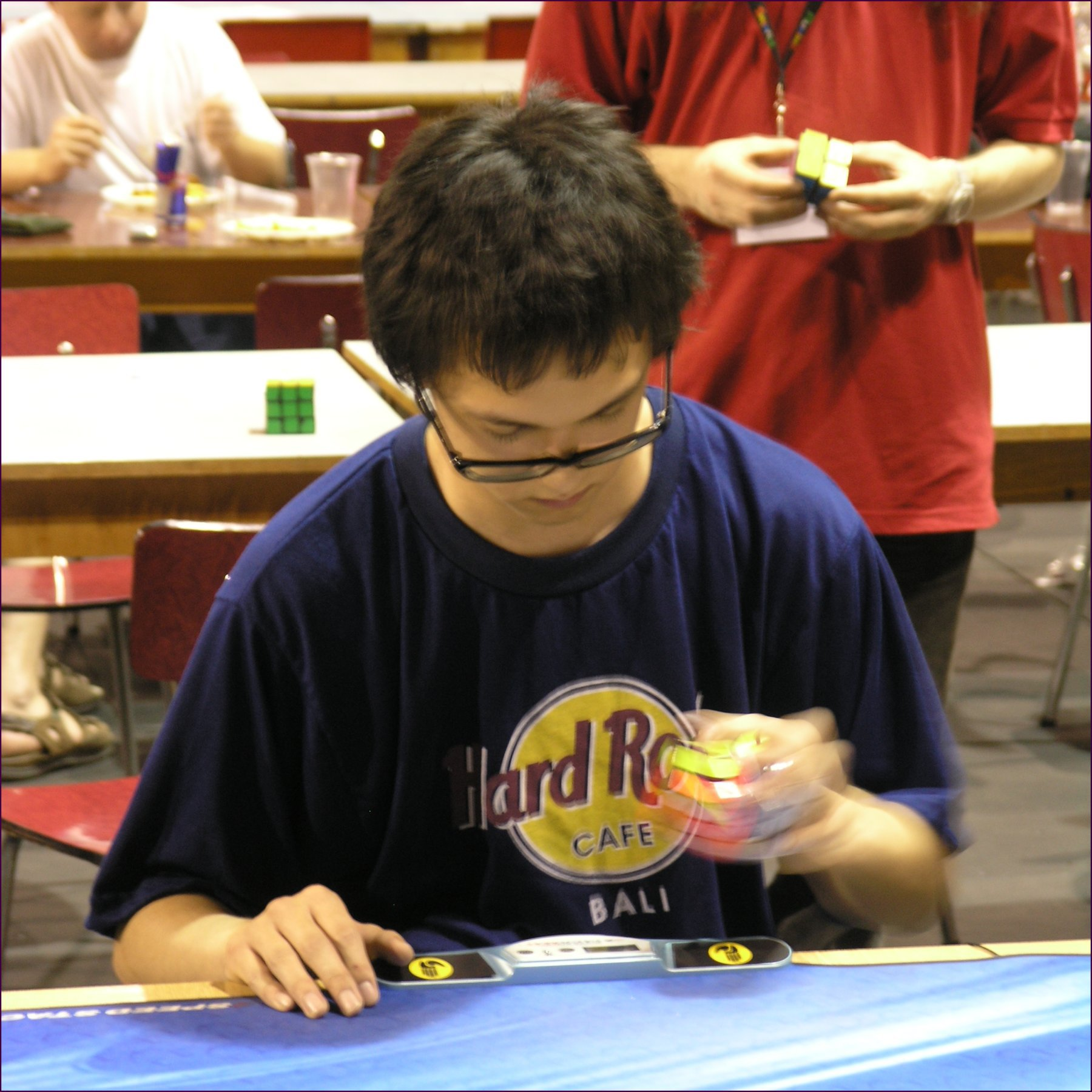 Speedcubing in Pardubice, one-handed event